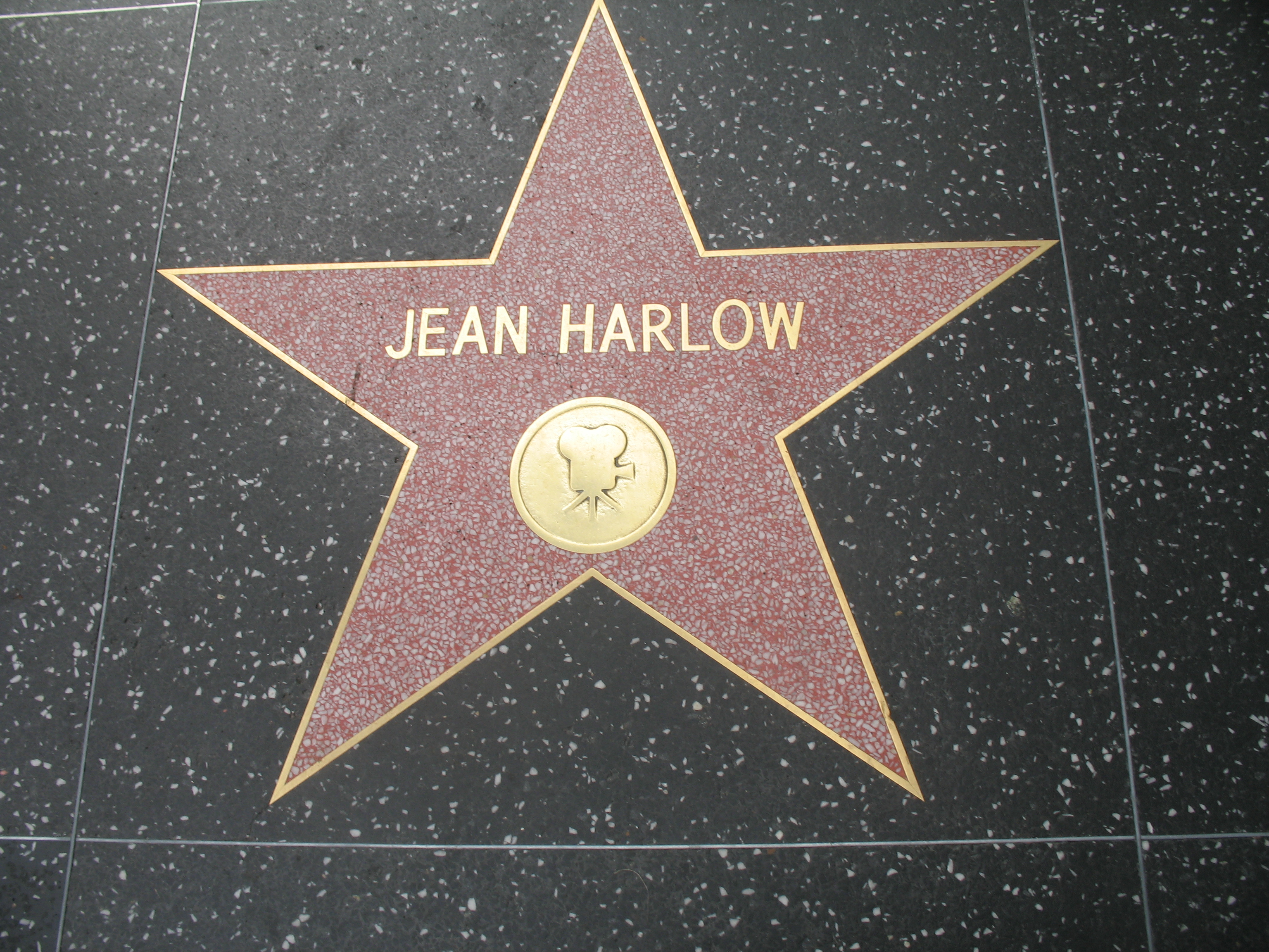 Jean Harlow's Star on the Hollywood Walk of Fame (2011)